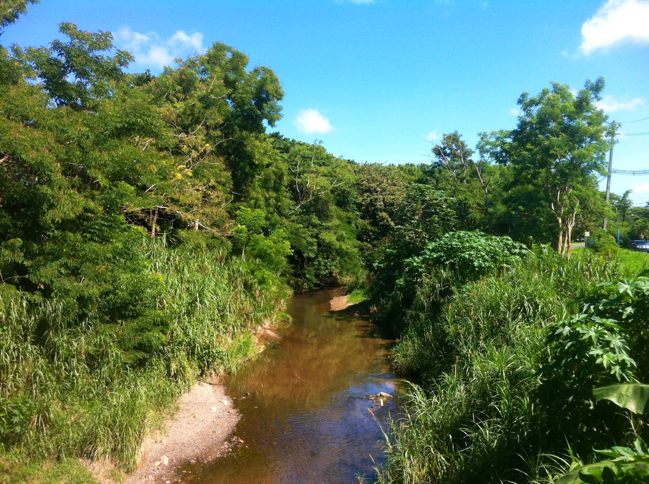 Twenty-seven (27) streams reach the Río Piedras Basin.